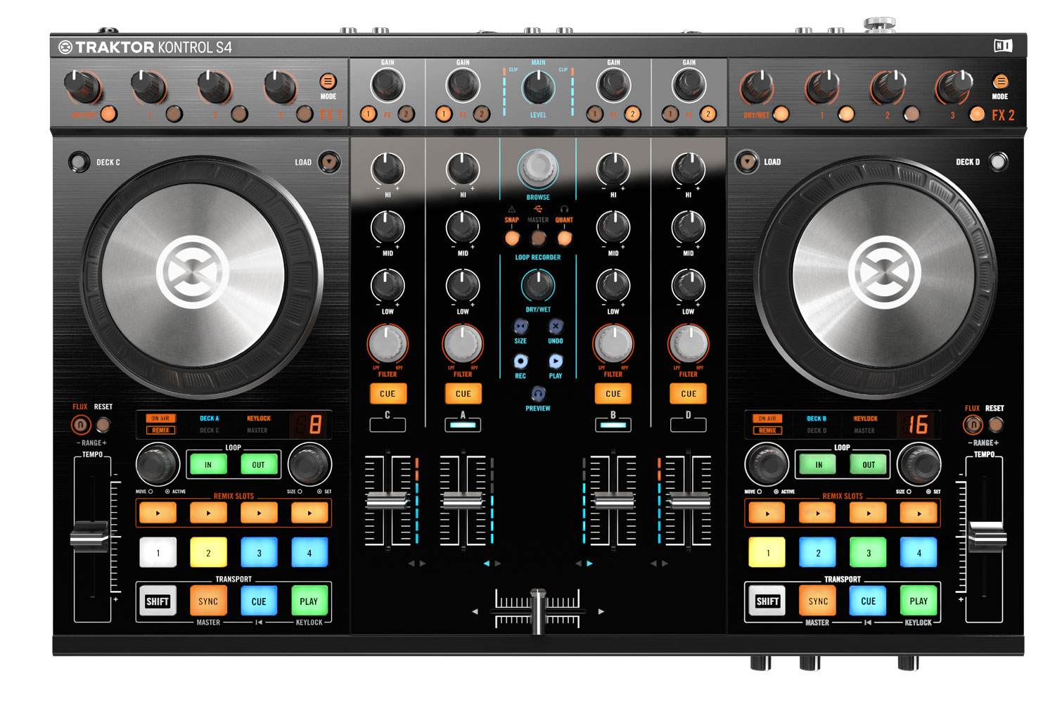 Native Instruments Stock image